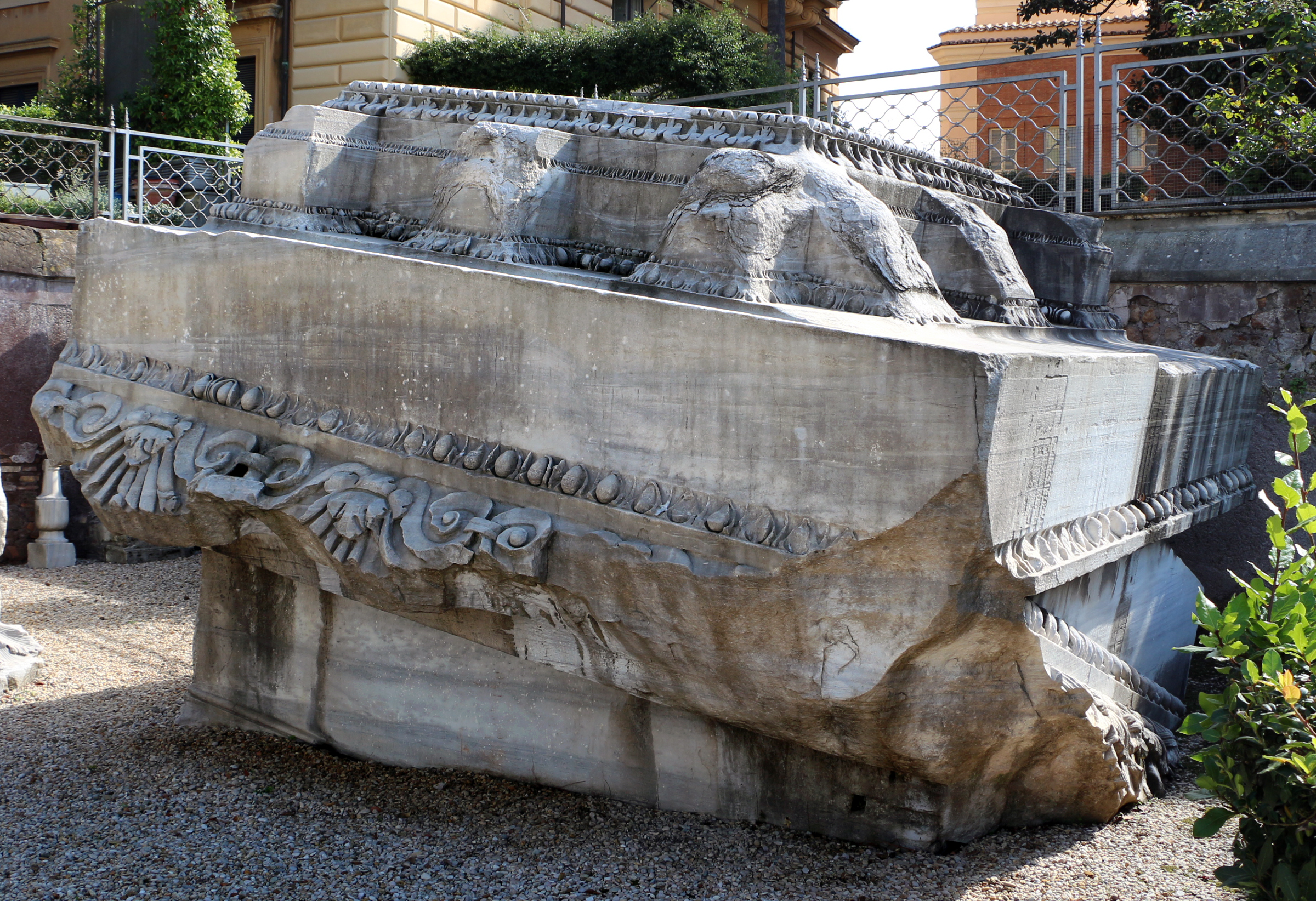 Palazzo Colonna (Rome) - Gardens